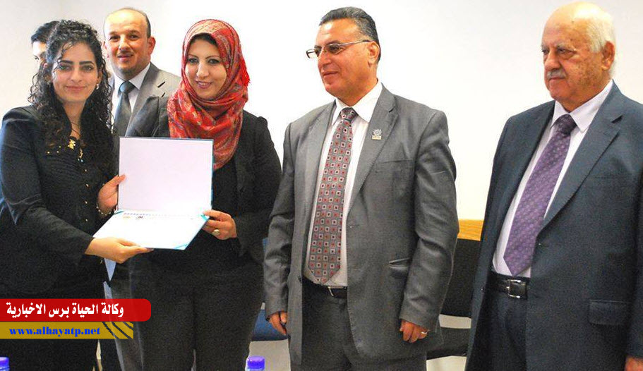 beit imrin